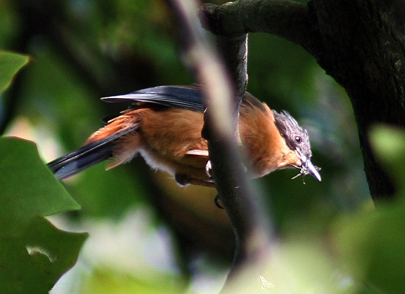 Rufous Sibia Heterophasia capistrata at Simla, Himachal Pradesh, India.